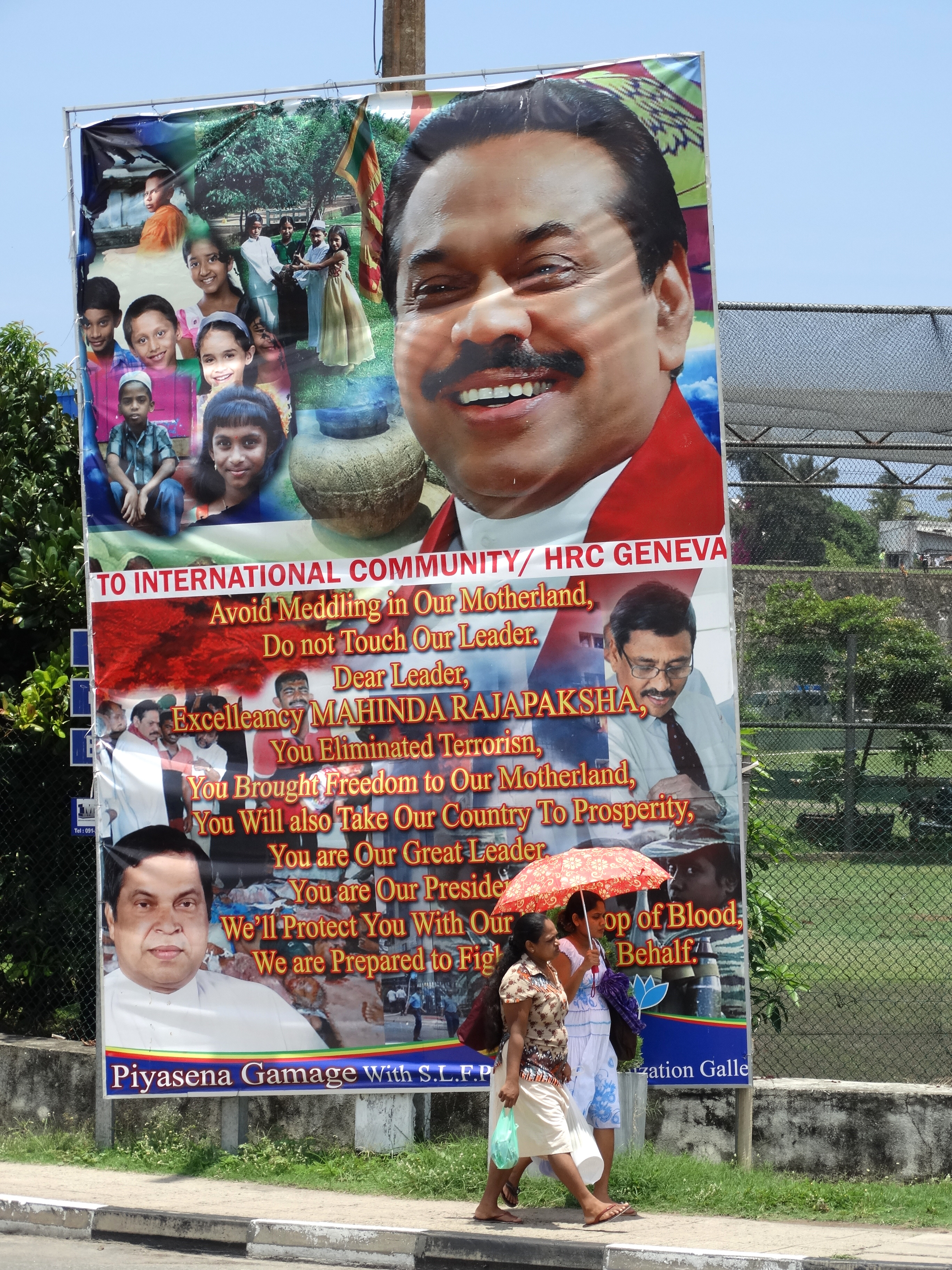 Paean to President Rajapaksa - New Town - Galle - Sri Lanka - 01